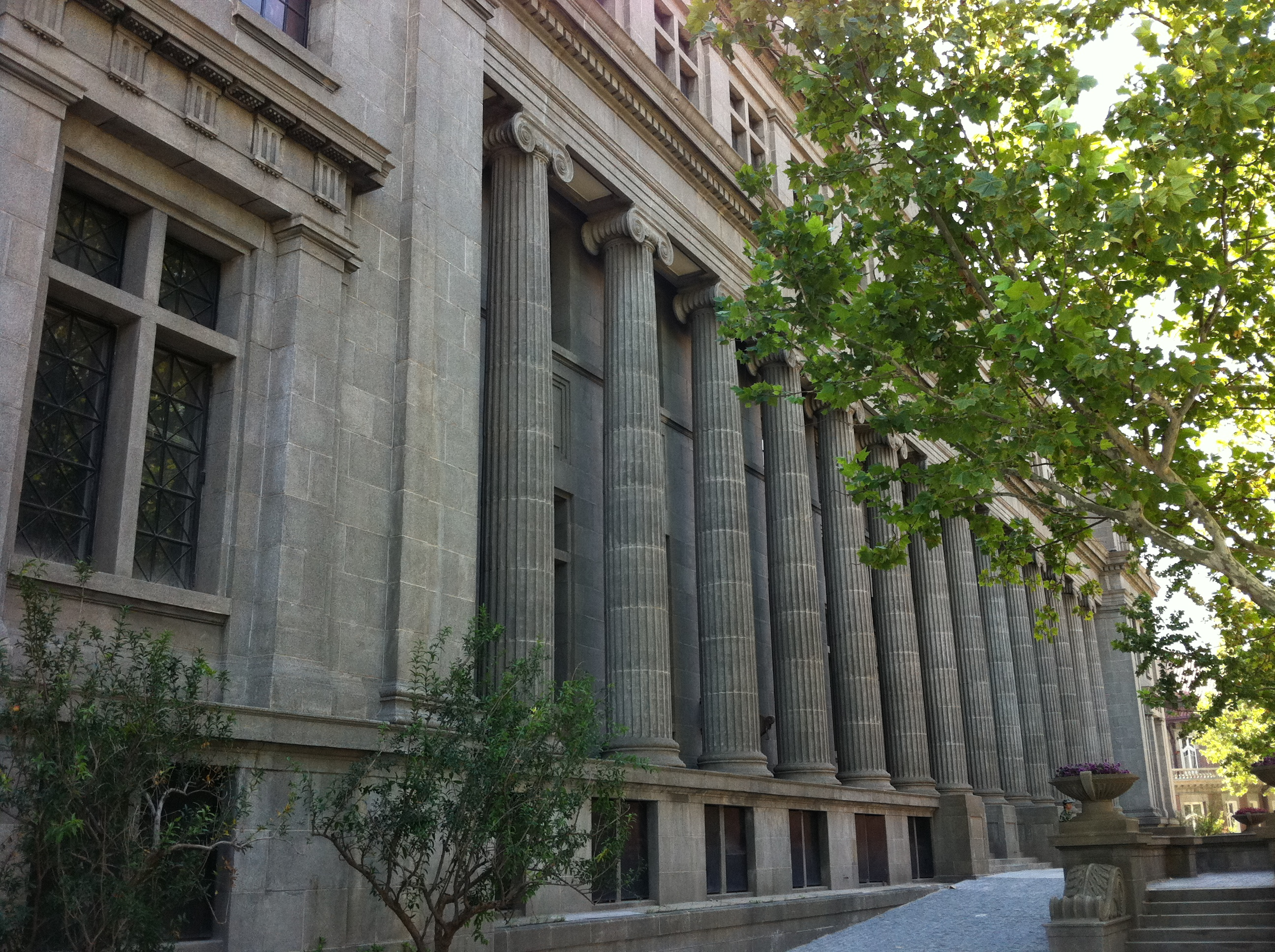 Former Kailuan Coal Mining Administration building in Tai'an Dao No. 5, Heping District, Tianjin